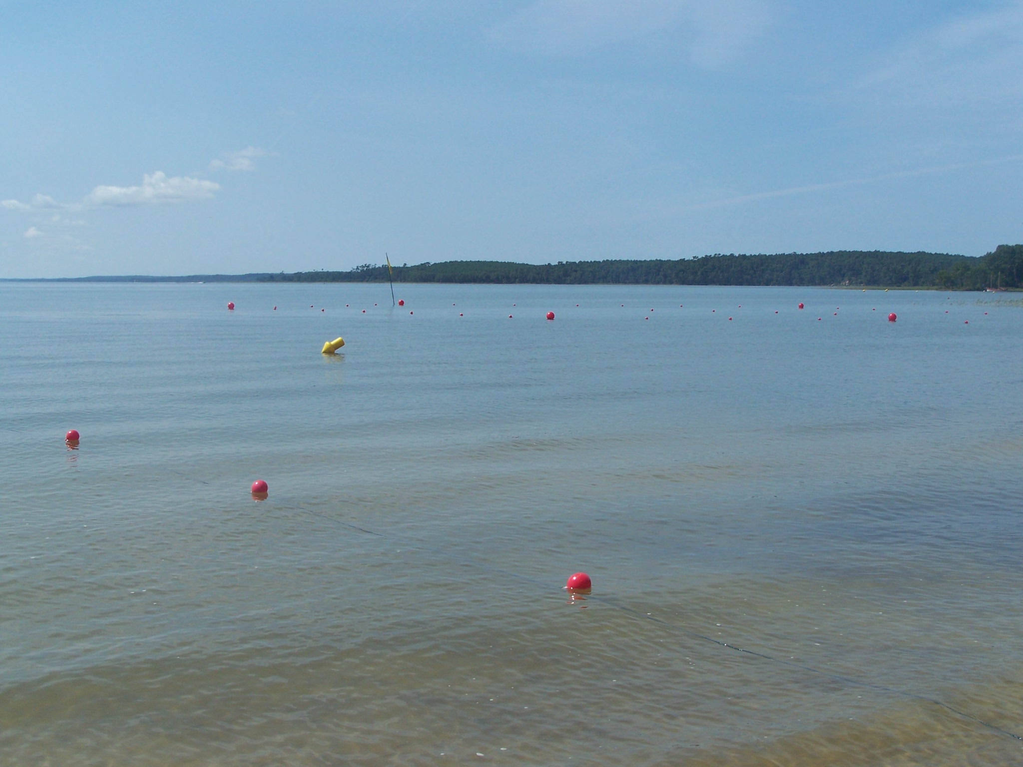 Lake of Hourtin-Carcans (from the names of the two communes built close to its coasts), the second biggest lake of France, in the department of Gironde.